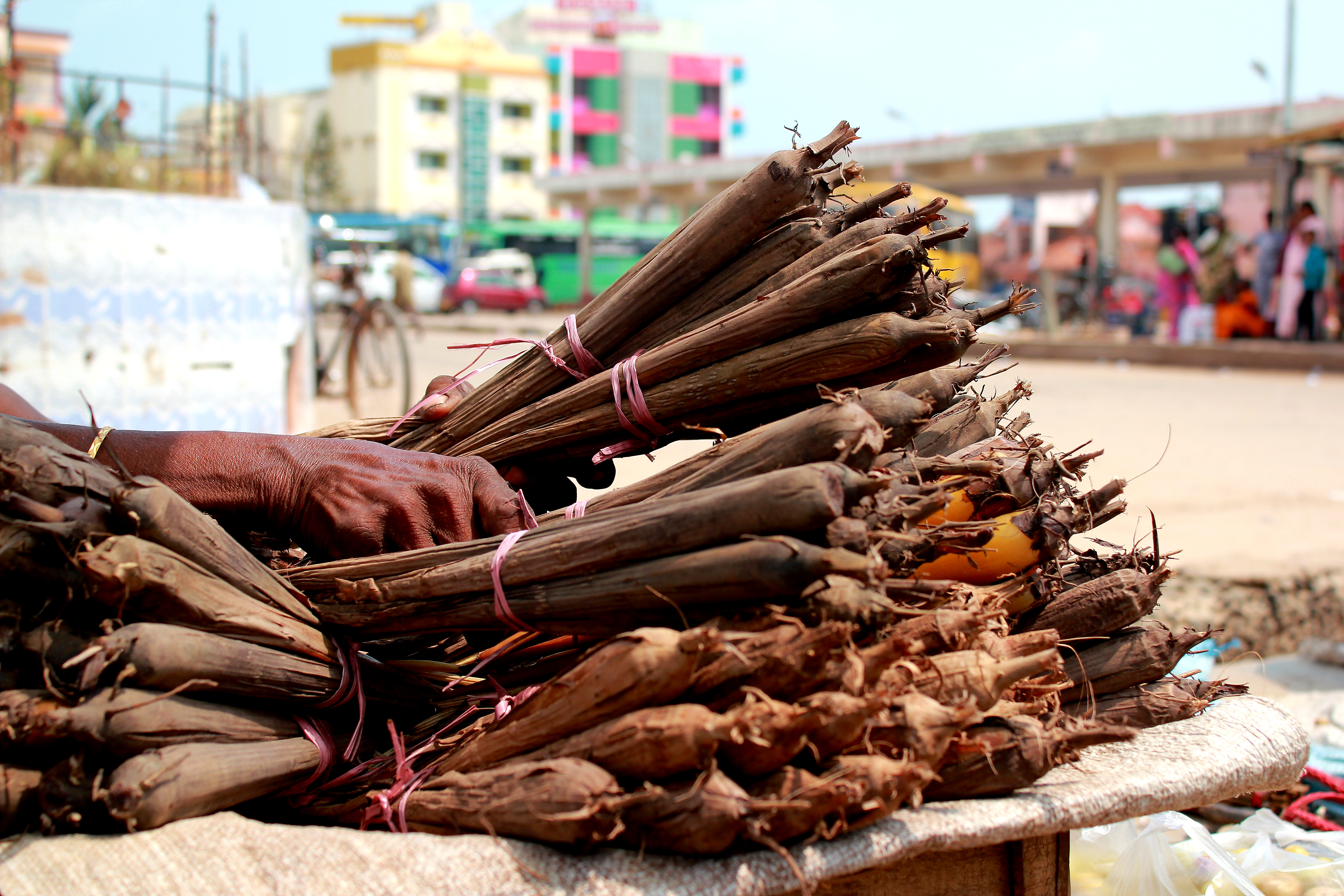 A panamkizhangu (palm root) shop